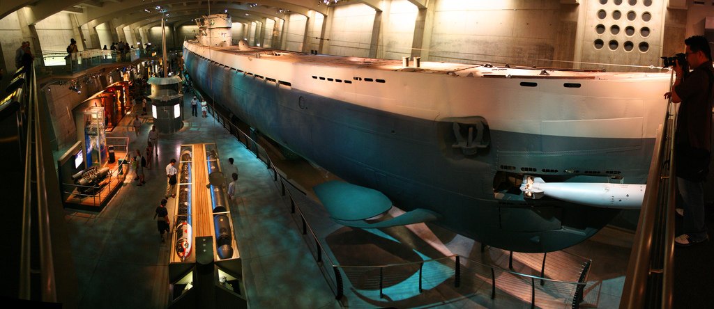 Wide-angle shot of U-505, located in the Chicago, IL Museum of Science and Industry.